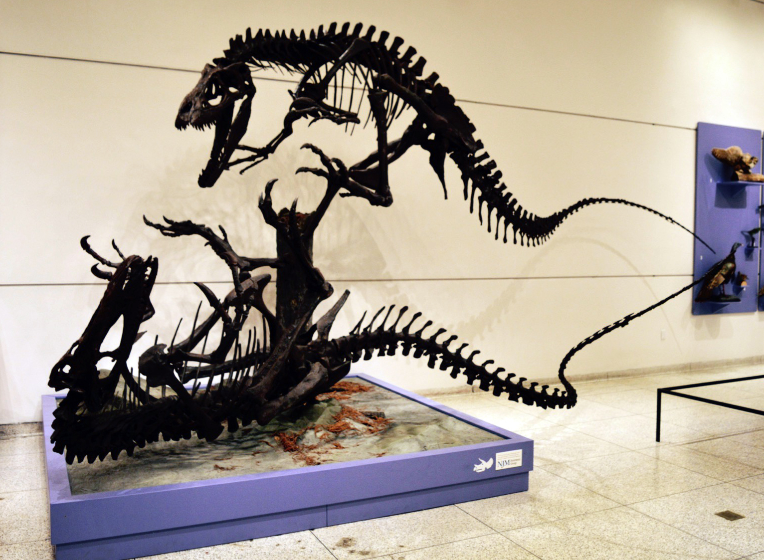 Fighting Fossils